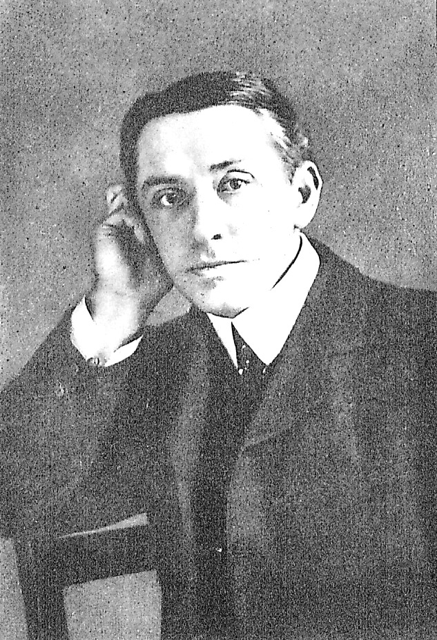 Portrait of the author J. S. Fletcher, scanned from the frontispiece of his autobiography, 'Memories of a Spectator' (1912), now in the world public domain.